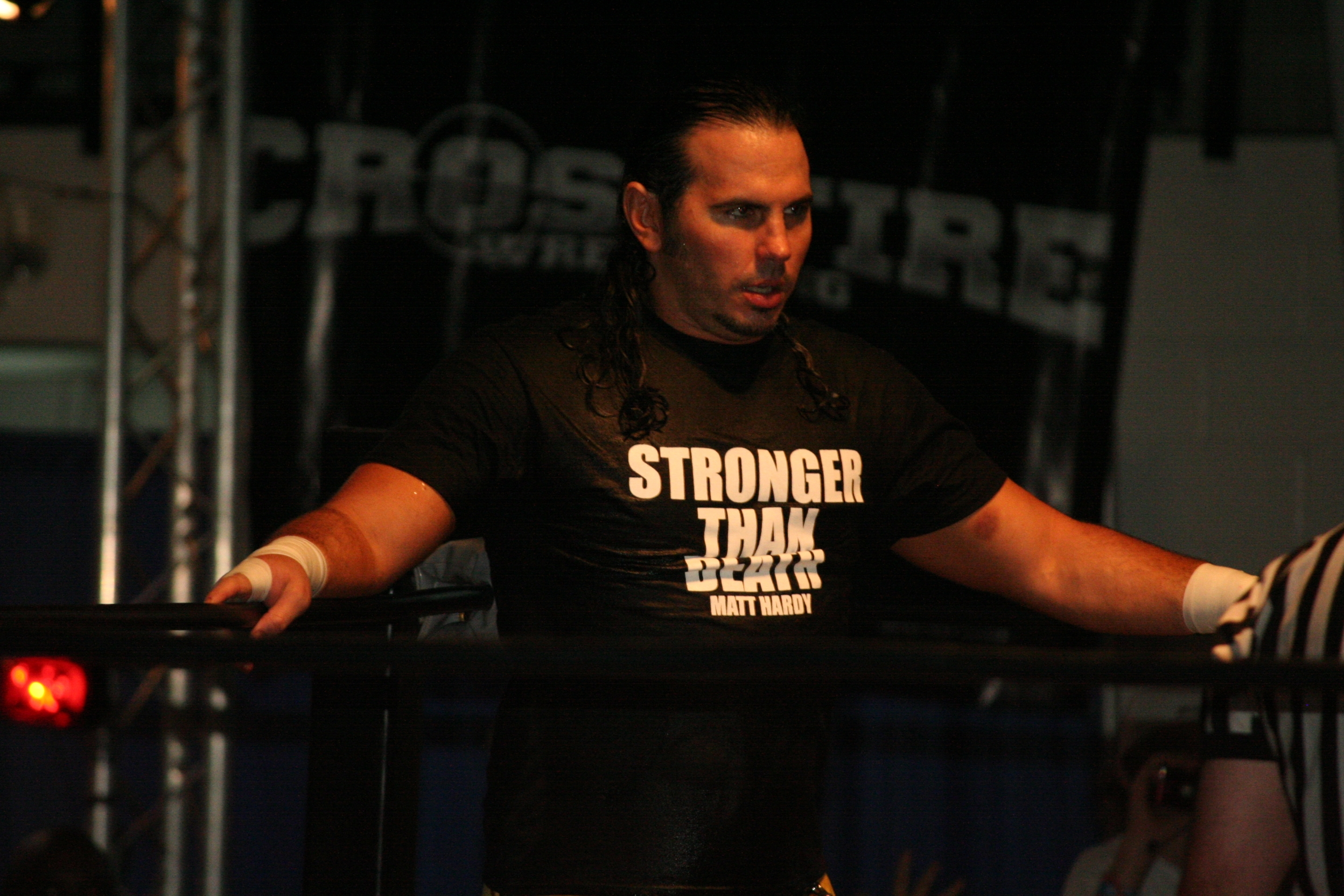 Matt Hardy in May 2012 before his match against MVP